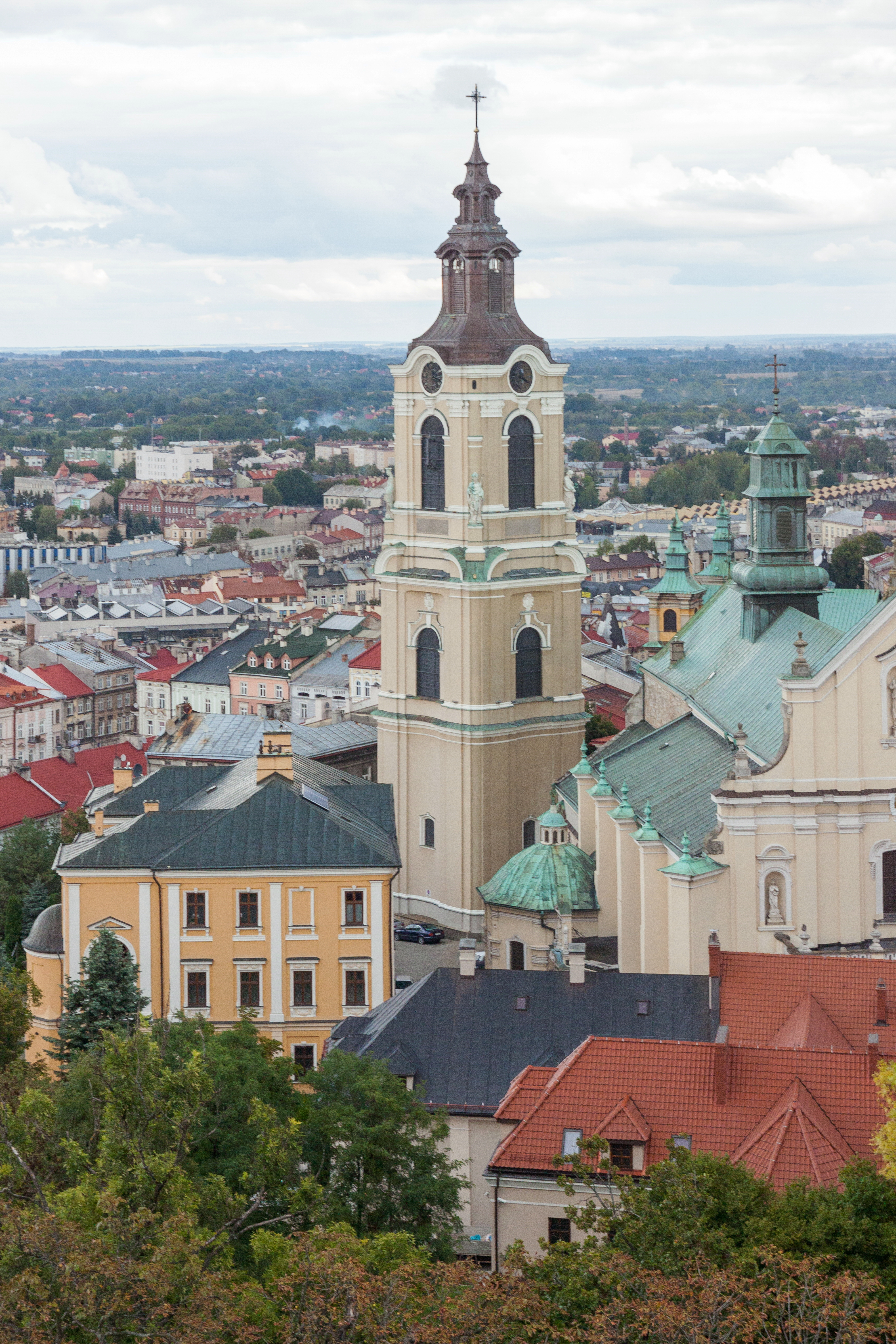 The view of the city from the north tower of the castle. Przemyśl, Subcarpathian Voivodeship, Poland.